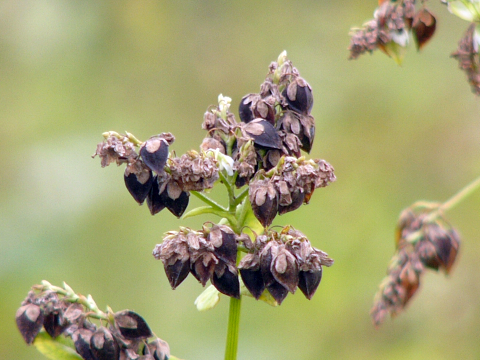 撮影データ (Data) 撮影地 (Place): 長野県塩尻市みどり湖,Midoriko Shiojiri-city Nagano-pref. 撮影年月日 (Date): 2006年10月04日 (10:20@JST, -Oct-2005) 撮影者 (Photographed by): K.G.Kirailla ライセンス (Licence): GFDL, cc 備考 (Contents): ソバの実(Fagopyrum esculentum seed)